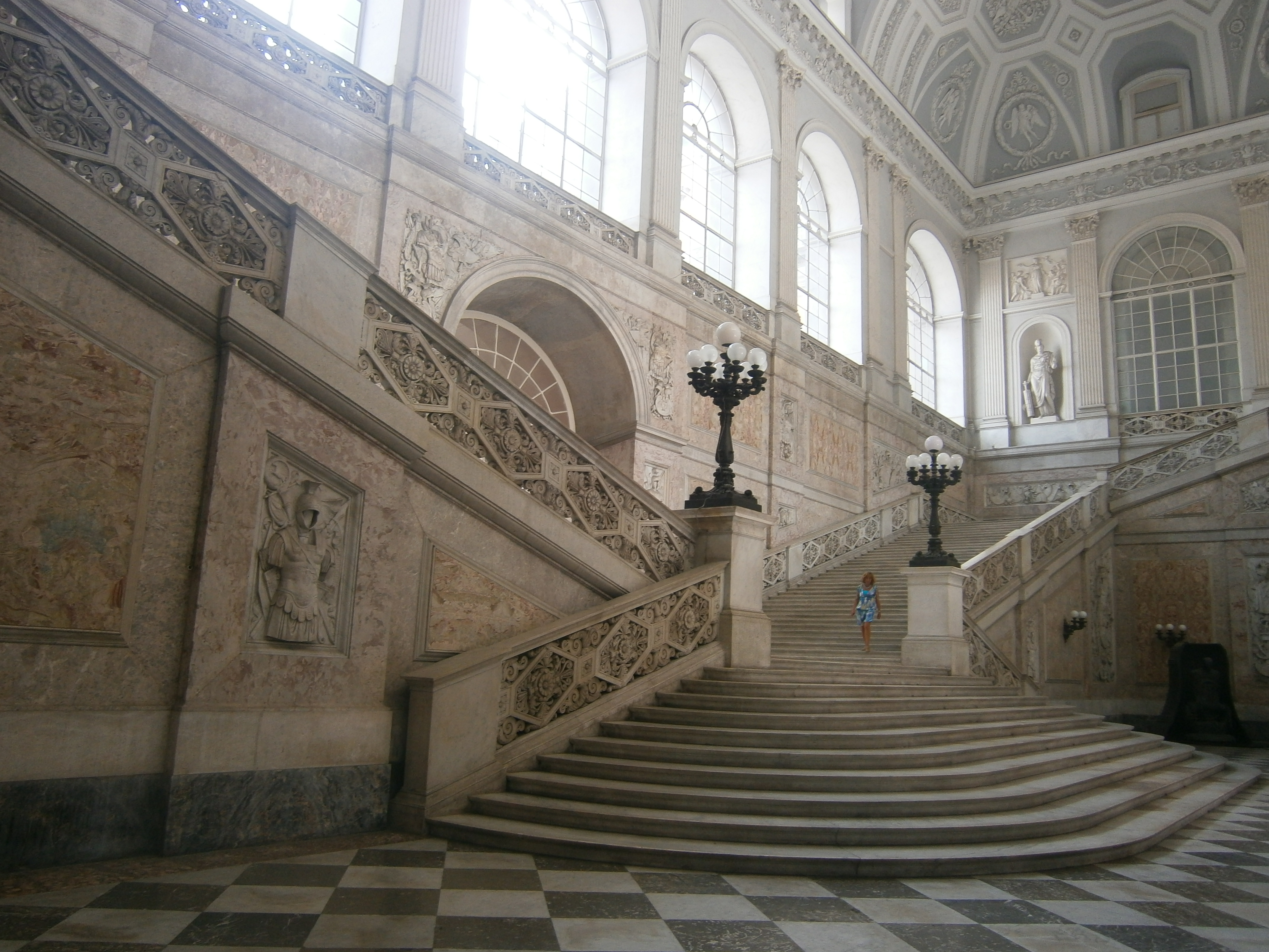 Main stairs of the Neapolitan Royal house